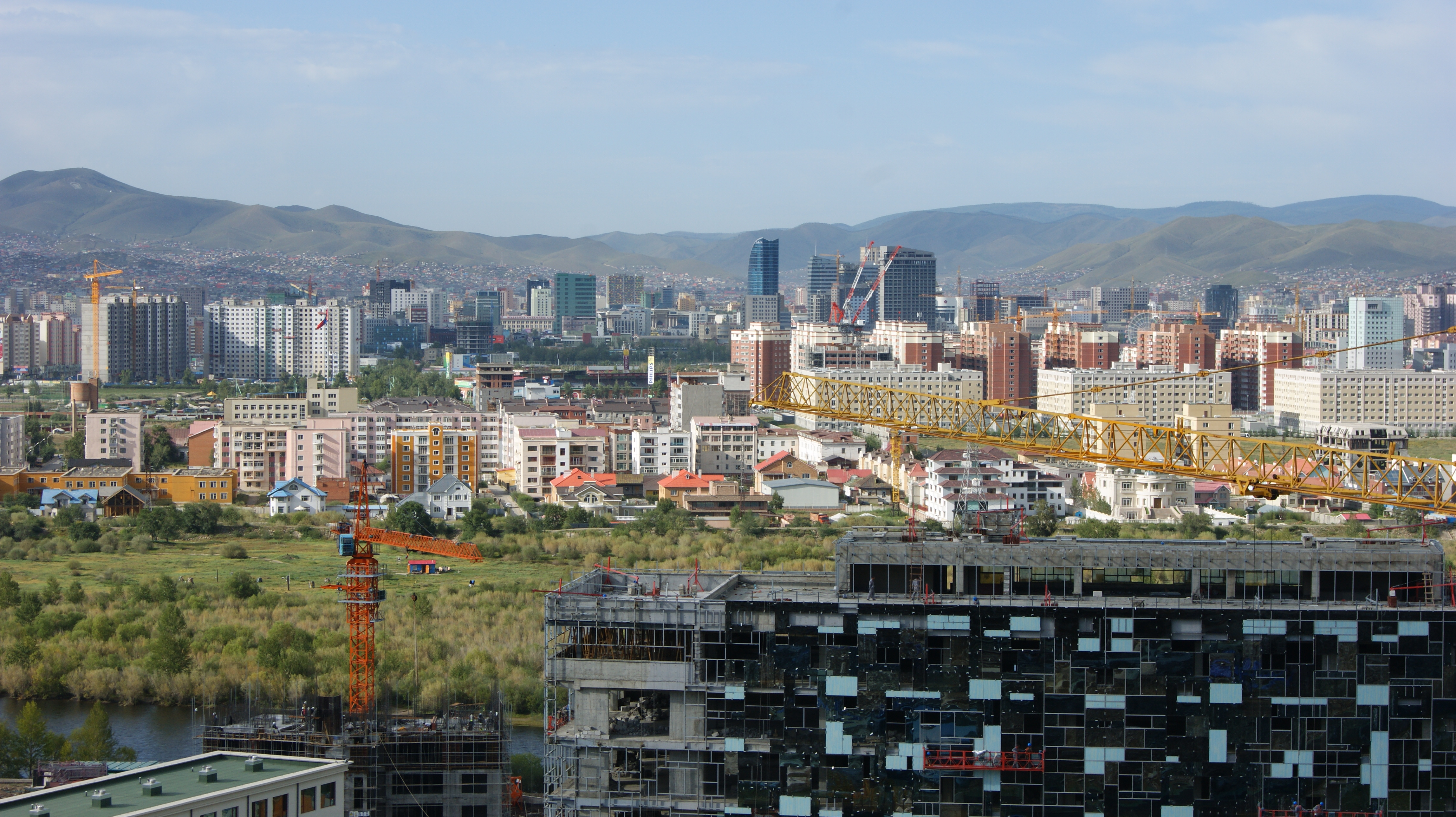 Улан-батор. Вид из гора Зайсан. 2012